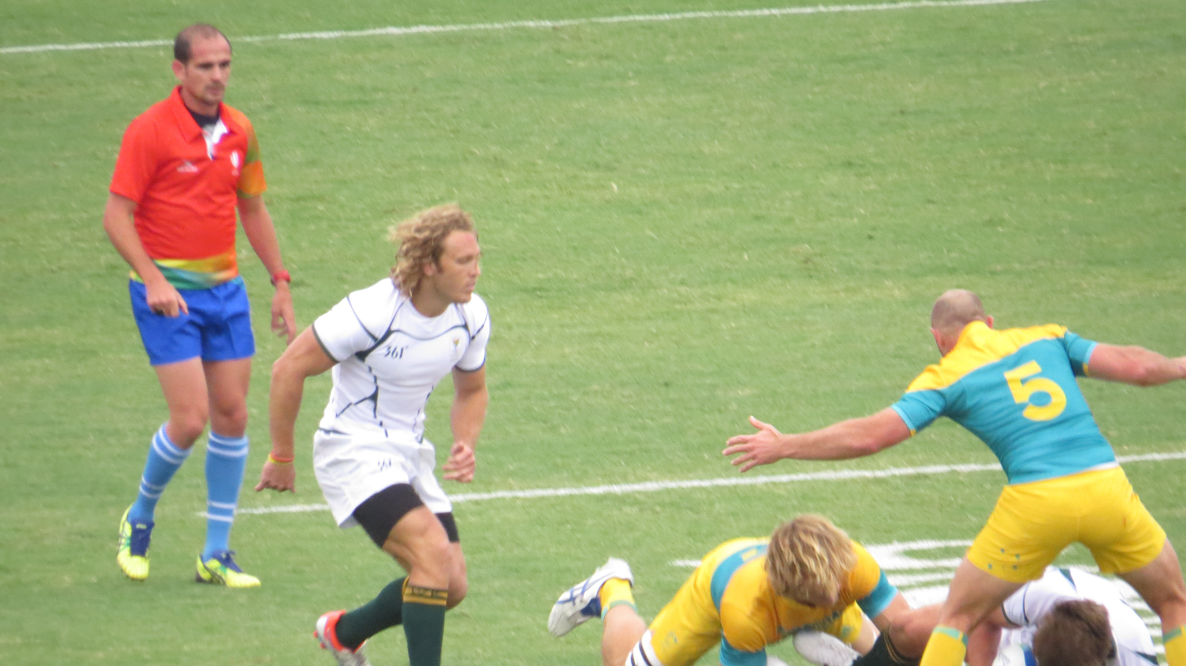 Rio 2016. Rugby 32